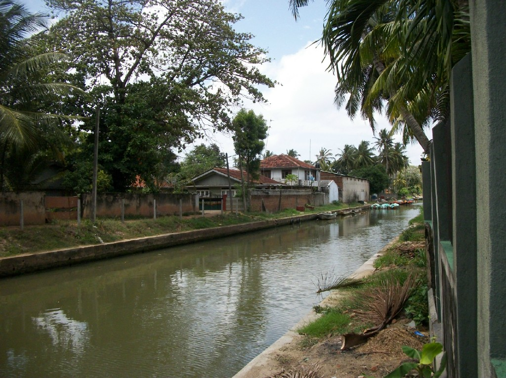 Negombo canal 2